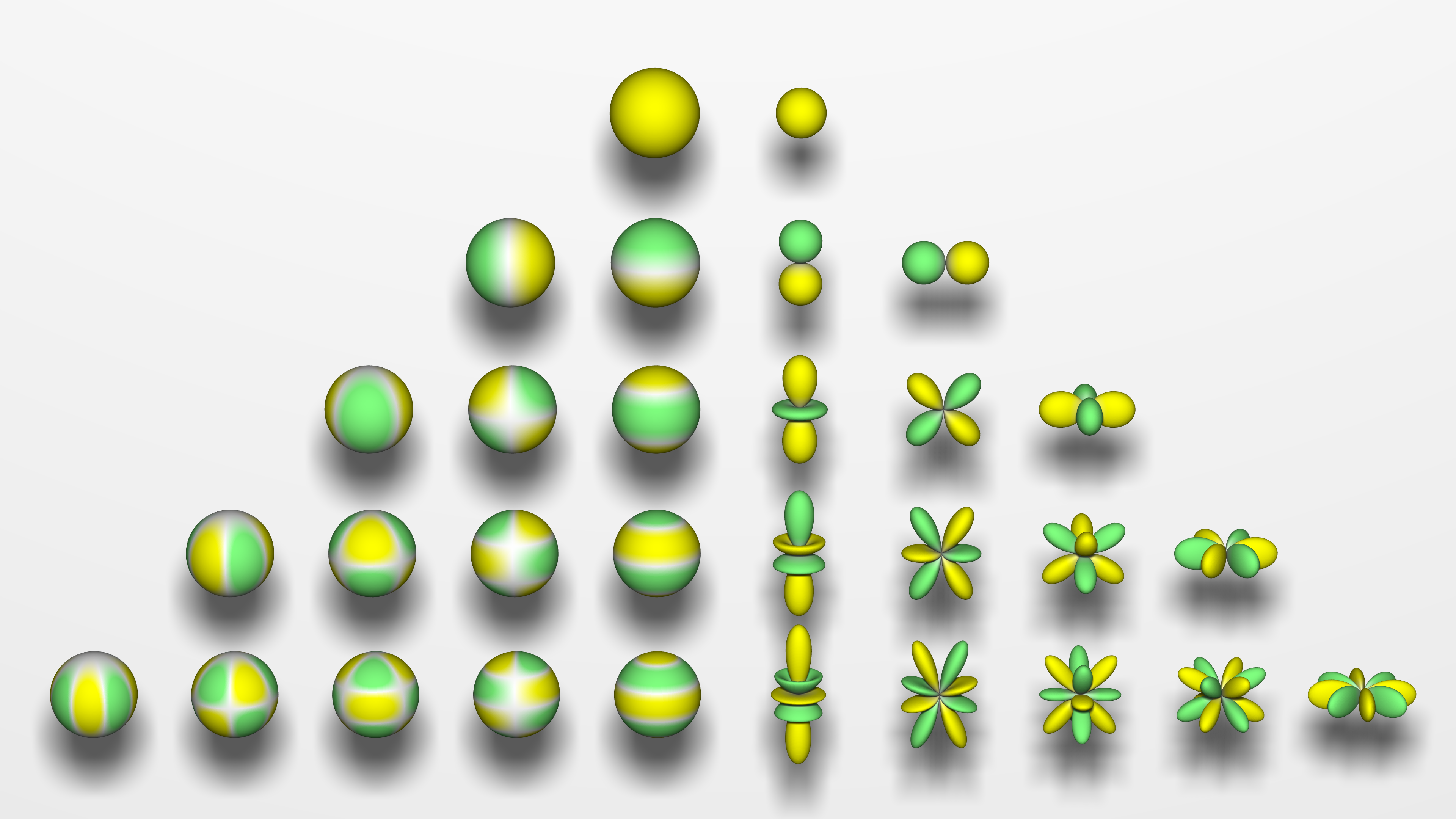 spherical (left) and atomic orbital (right) representations of the cubic harmonics (real spherical harmonics)